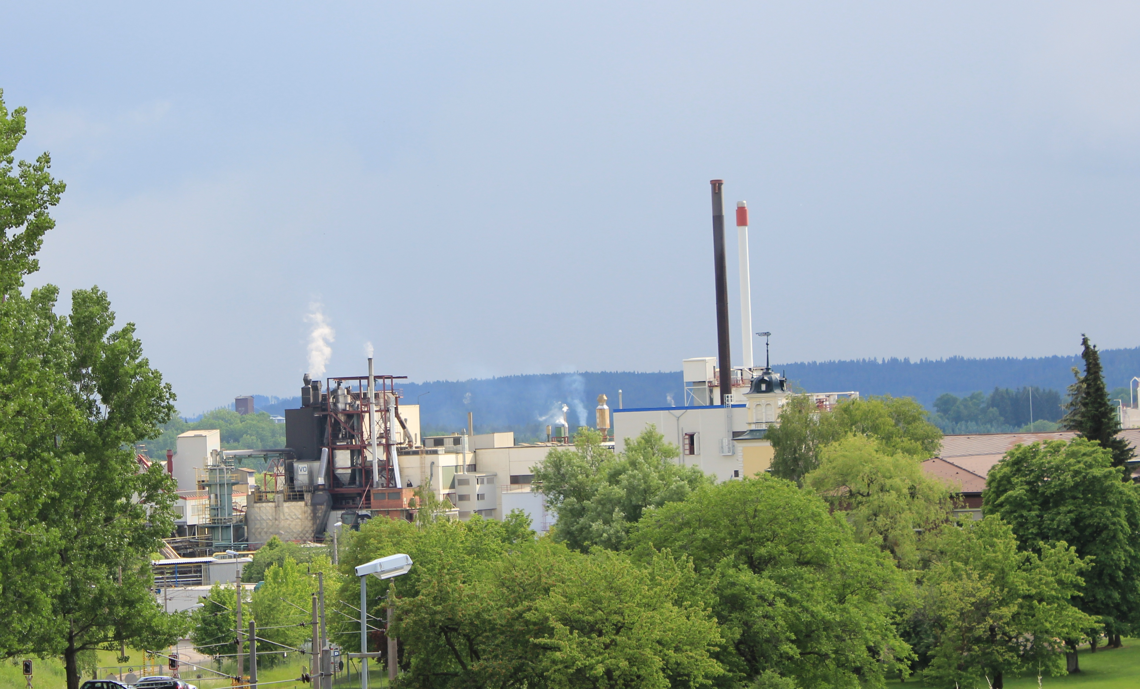 Chemical plant in Althofen